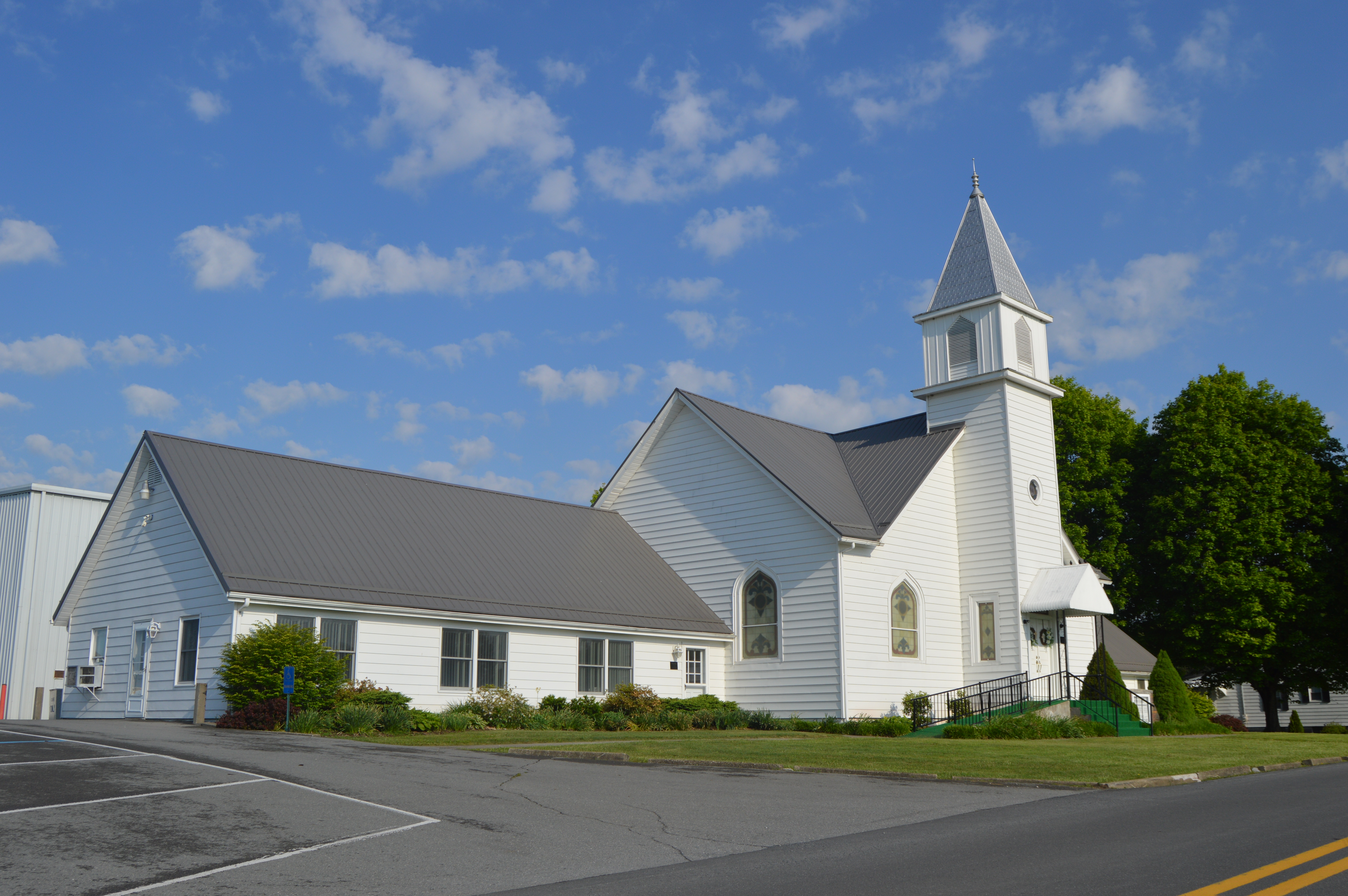 Front and western side of Jordan Chapel United Methodist Church, located at 66 Groves Road southwest of Canvas in Nicholas County, West Virginia, United States.